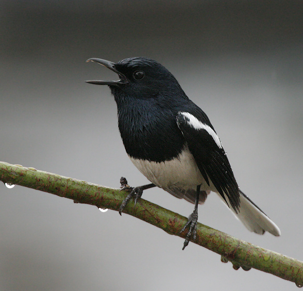 Oriental Magpie Robin (Copsychus saularis) in Kolkata, West Bengal, India.